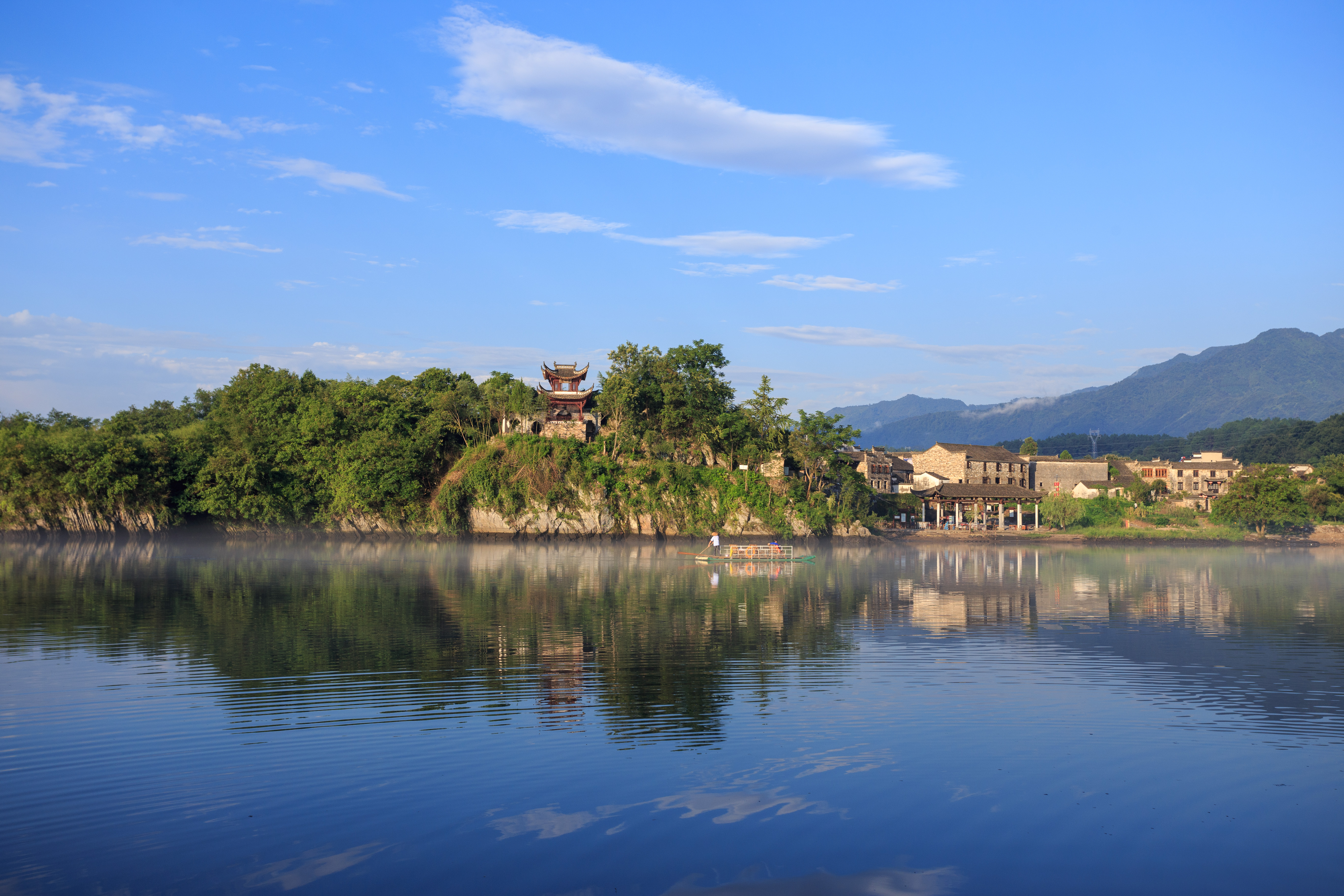 Taohuatan Huaixian Court in Jixian County, China.